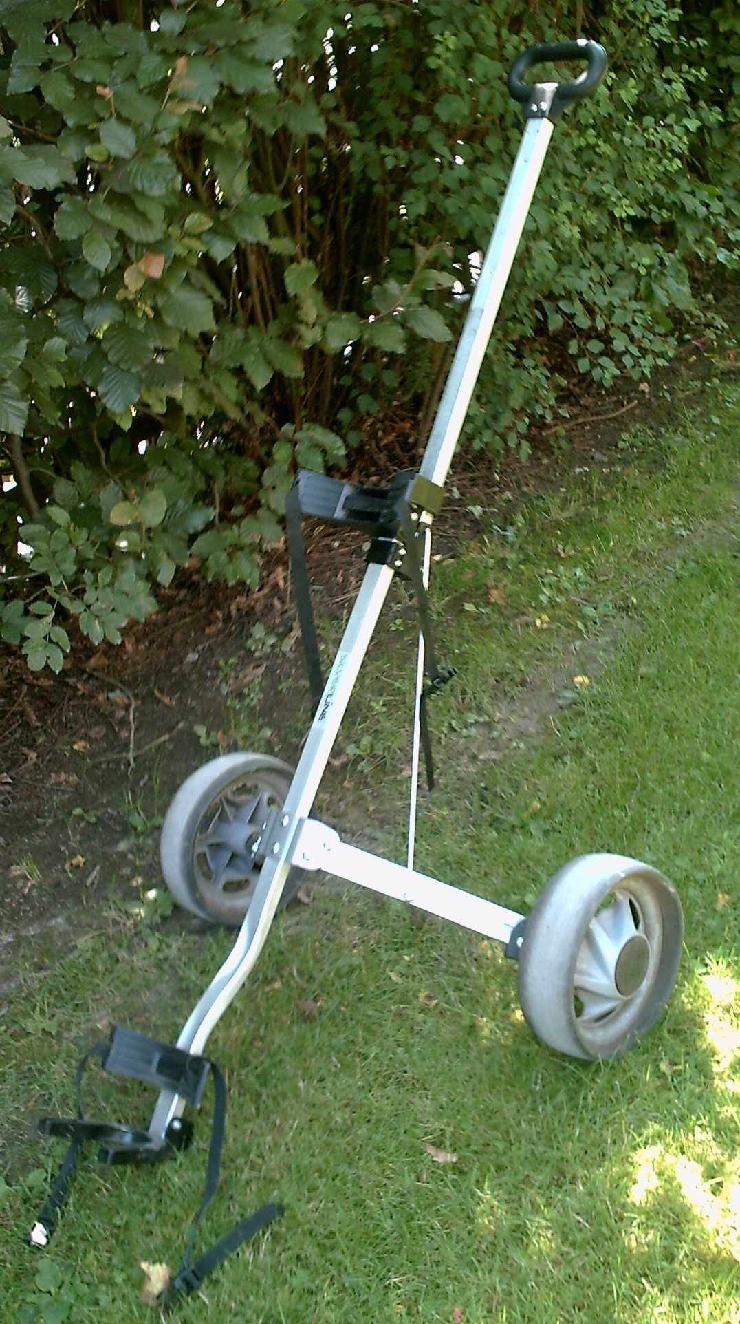 Golf trolley without engine